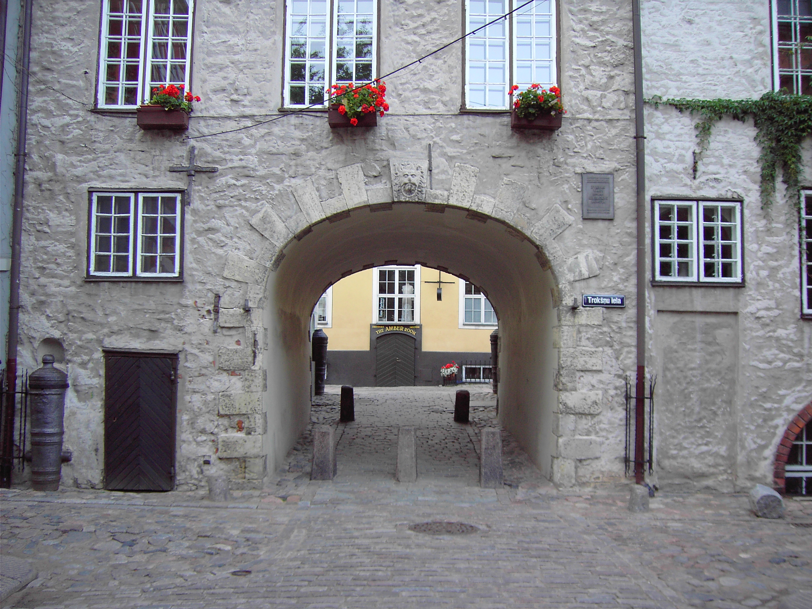 Riga, Sweden Gate